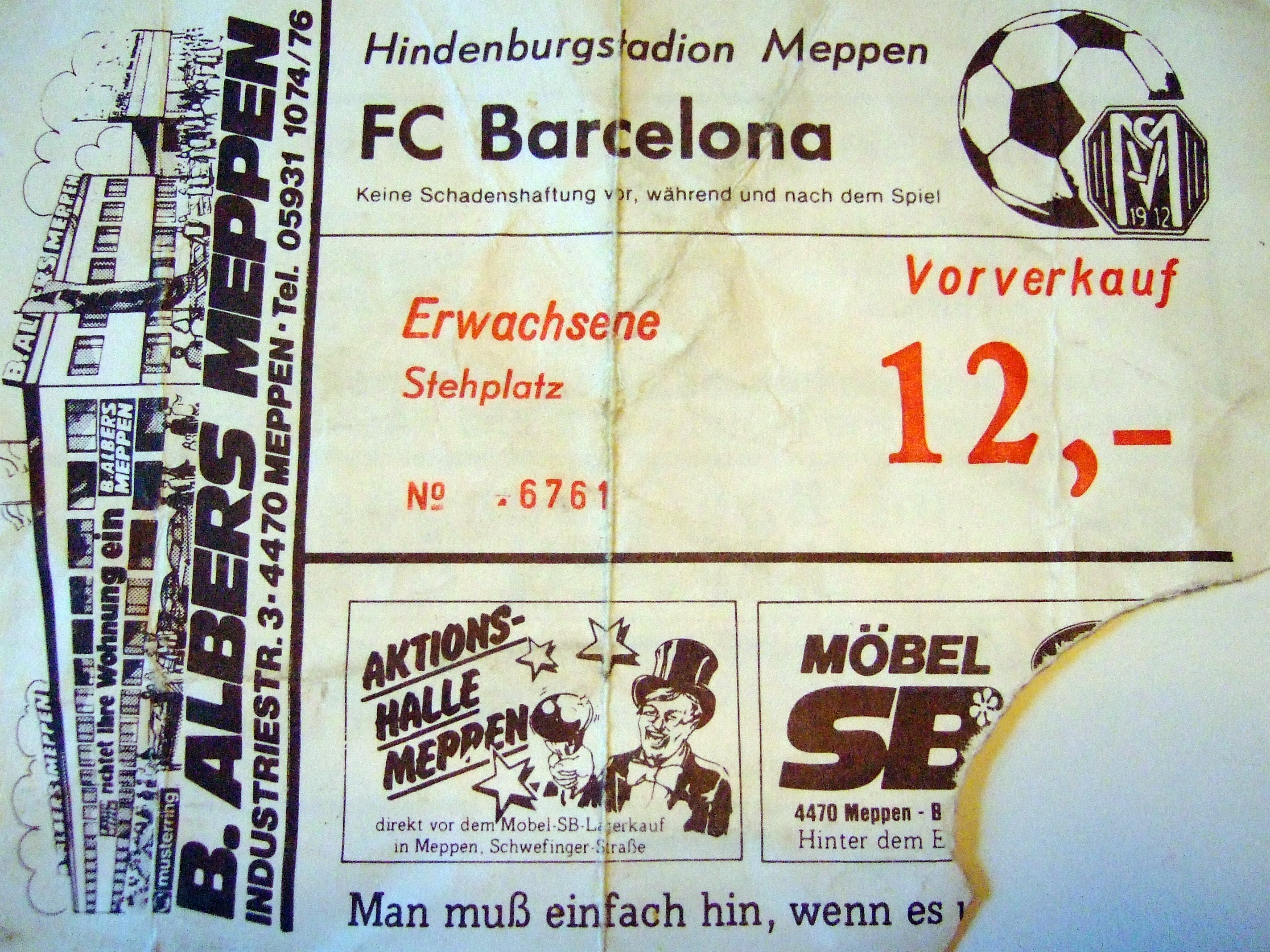 SV Meppen-FC Barcelona 1982 Billet / 1st Game of Maradona for FC Barcelona